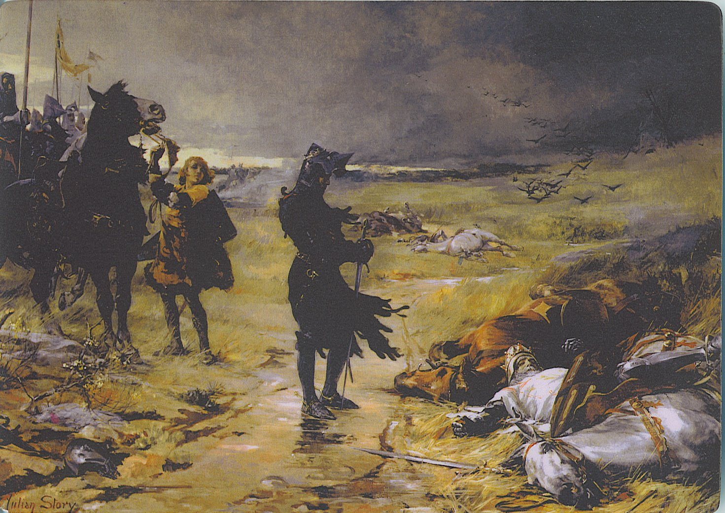 Painting by Julian Russel Story of the Black Prince at the battle of Crecy. At his feet lies the body of the dead King John of Bohemia. Note: This is a scan of a magnet and does not reflect the true colors of the painting.